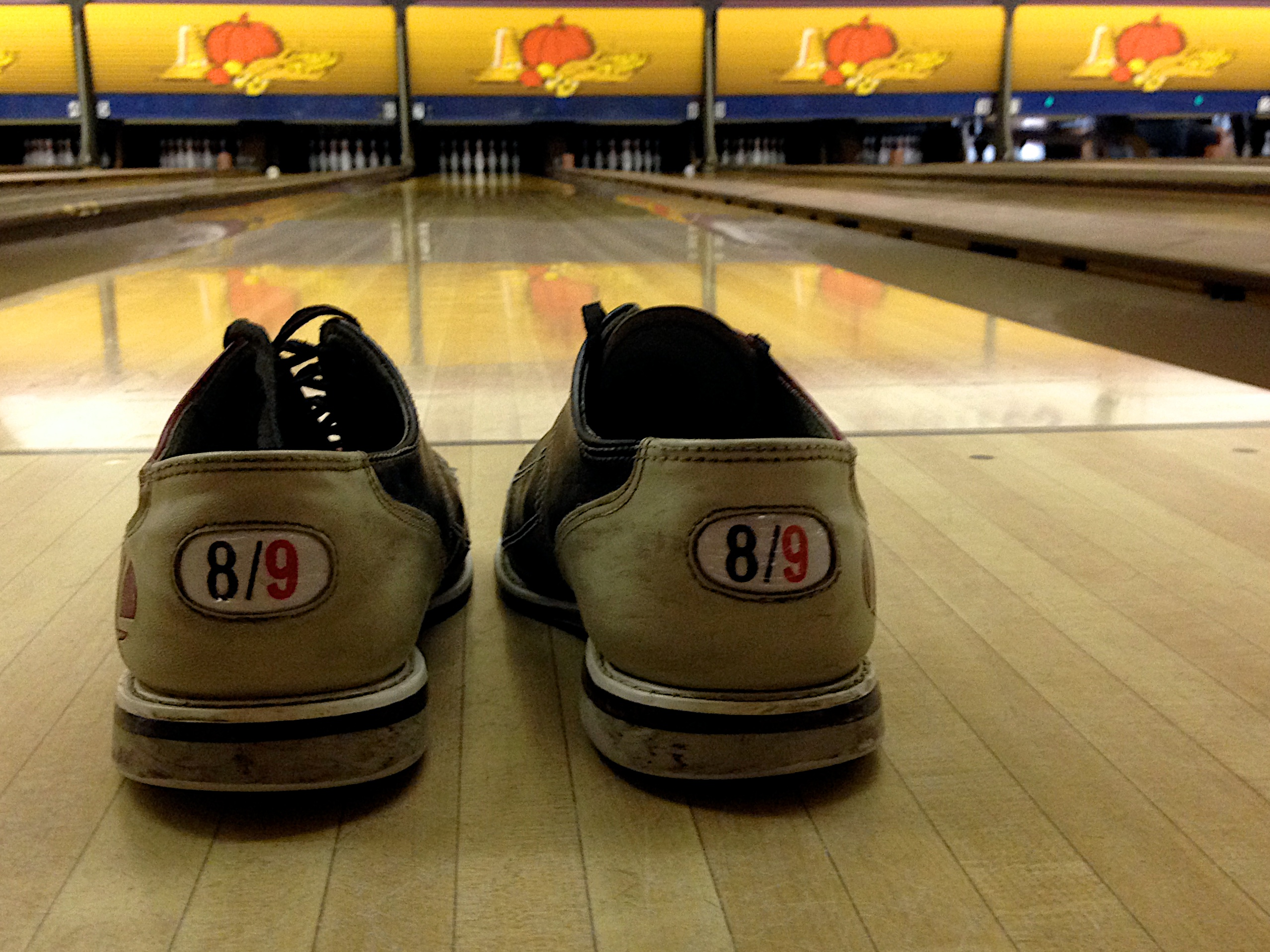 Gotta work on my bowling form